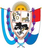 Coat of arms of Chañar Ladeado, a city in Santa Fe Province, Argentina.